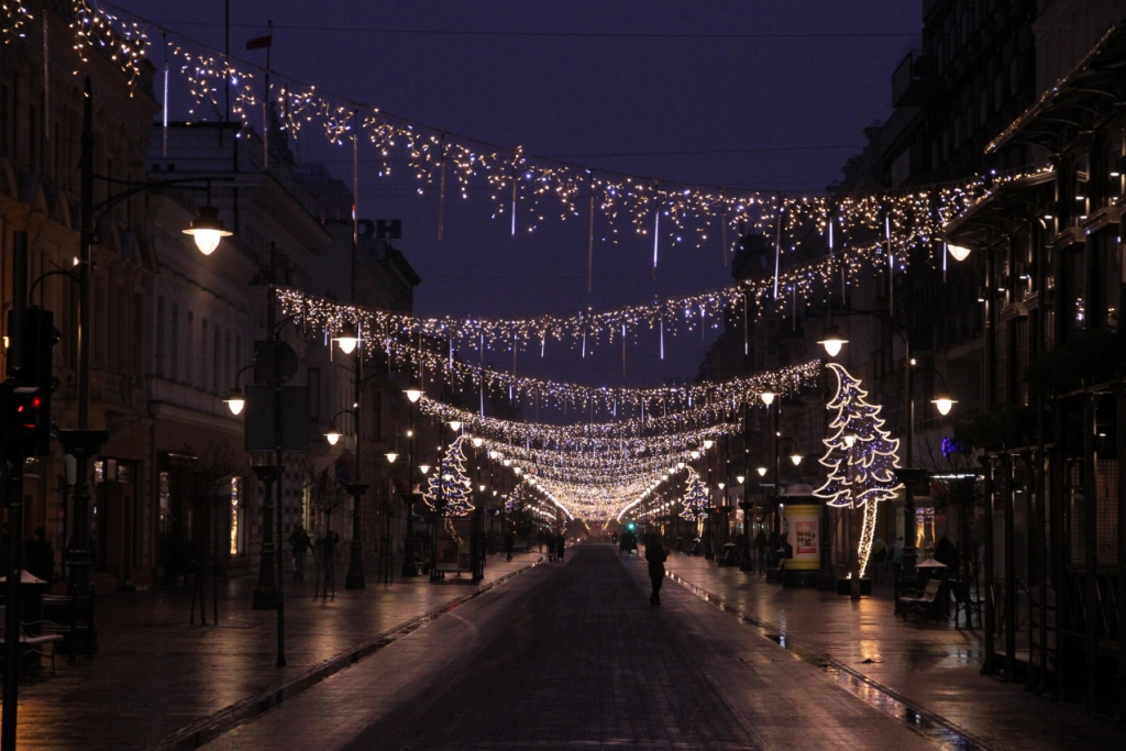 Christmas lights in ulica Piotrkowska, Łódź, Poland, in December 2014